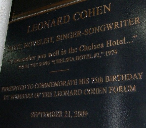 Leonard Cohen plaque in Chelsea Hotel in New York City